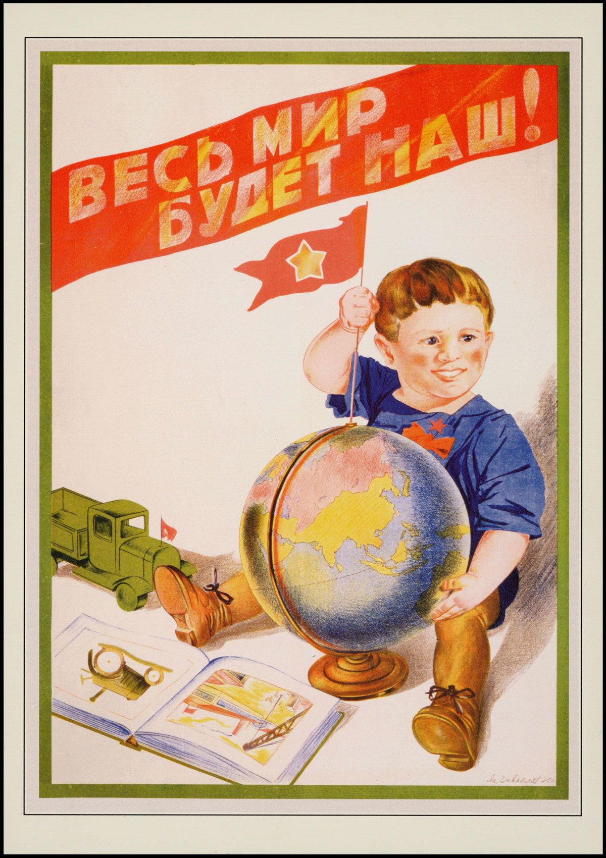 The whole World shall be ours!